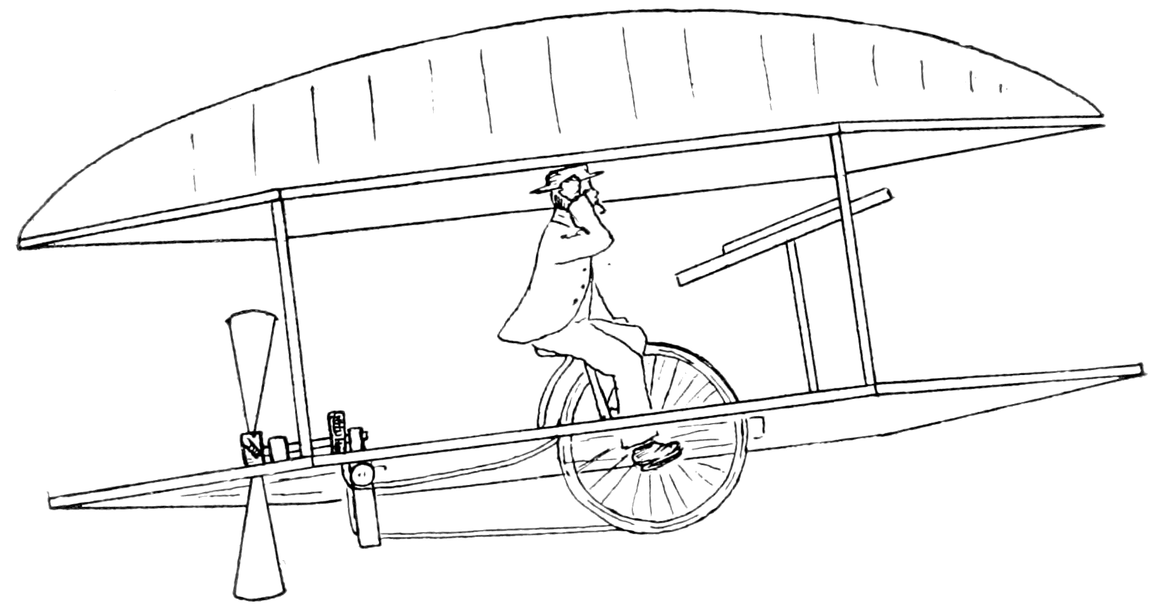 Blanchard flying machine